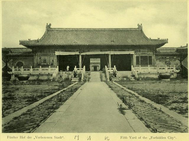 old photo from China 1900-1903, see the file's name for detail.